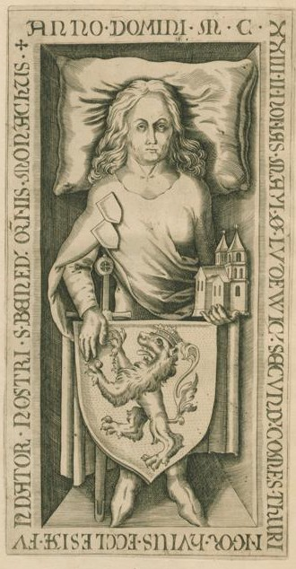 Ludwig der Springer